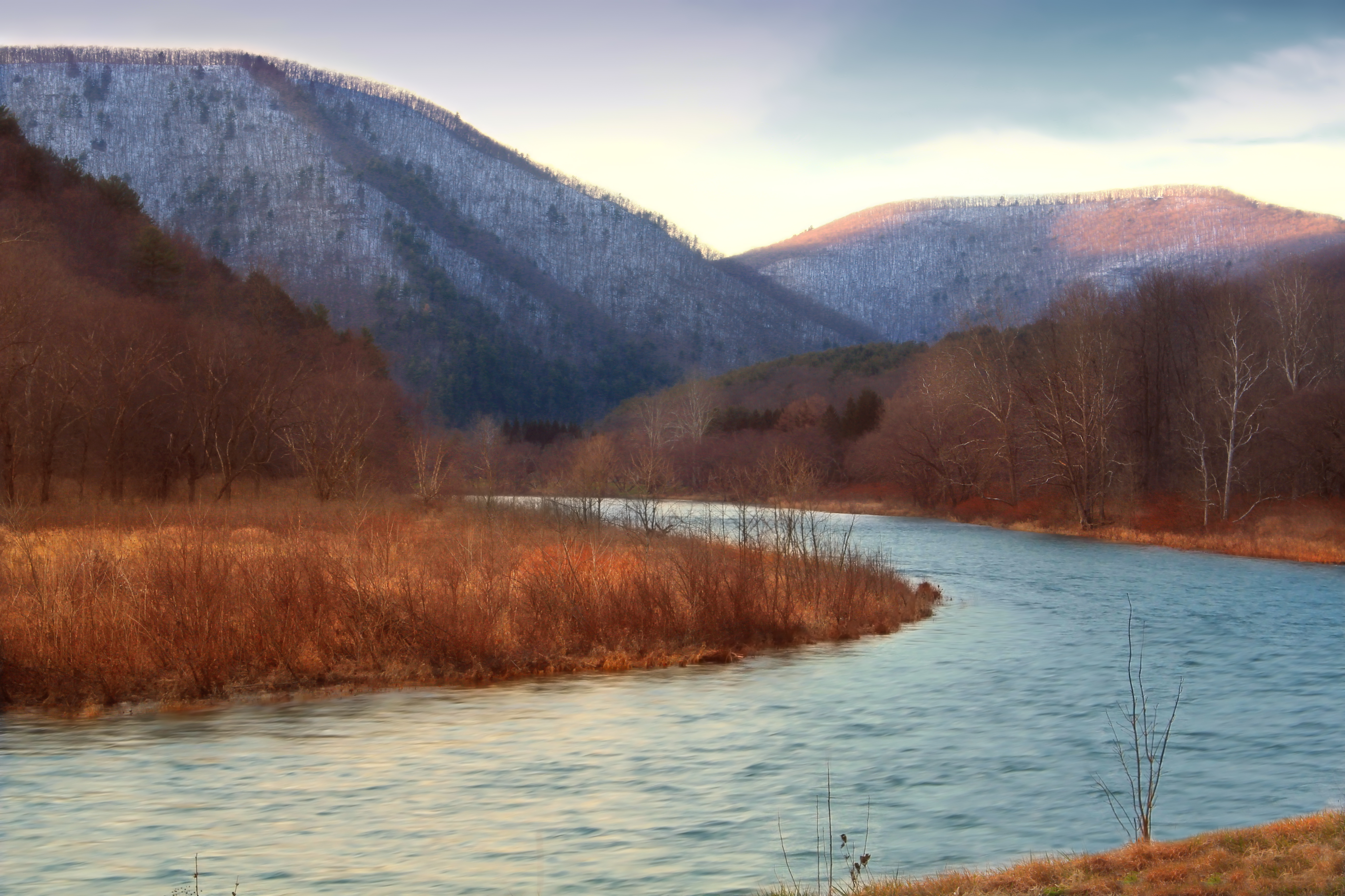 Pine Creek at dusk, Lycoming County, Pennsylvania as seen from the Pine Creek Rail-Trail.